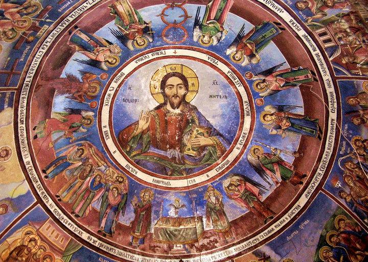 Fresco in St. Nedela Church in R'žanovo, Macedonia